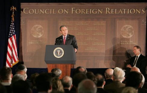 White House Office of the Press Secretary Council on Foreign Relations Washington, DC December 7, 2005 President George W. Bush addresses a meeting of the Council on Foreign Relations in Washington, speaking on the war on terror and the rebuilding of Iraq.